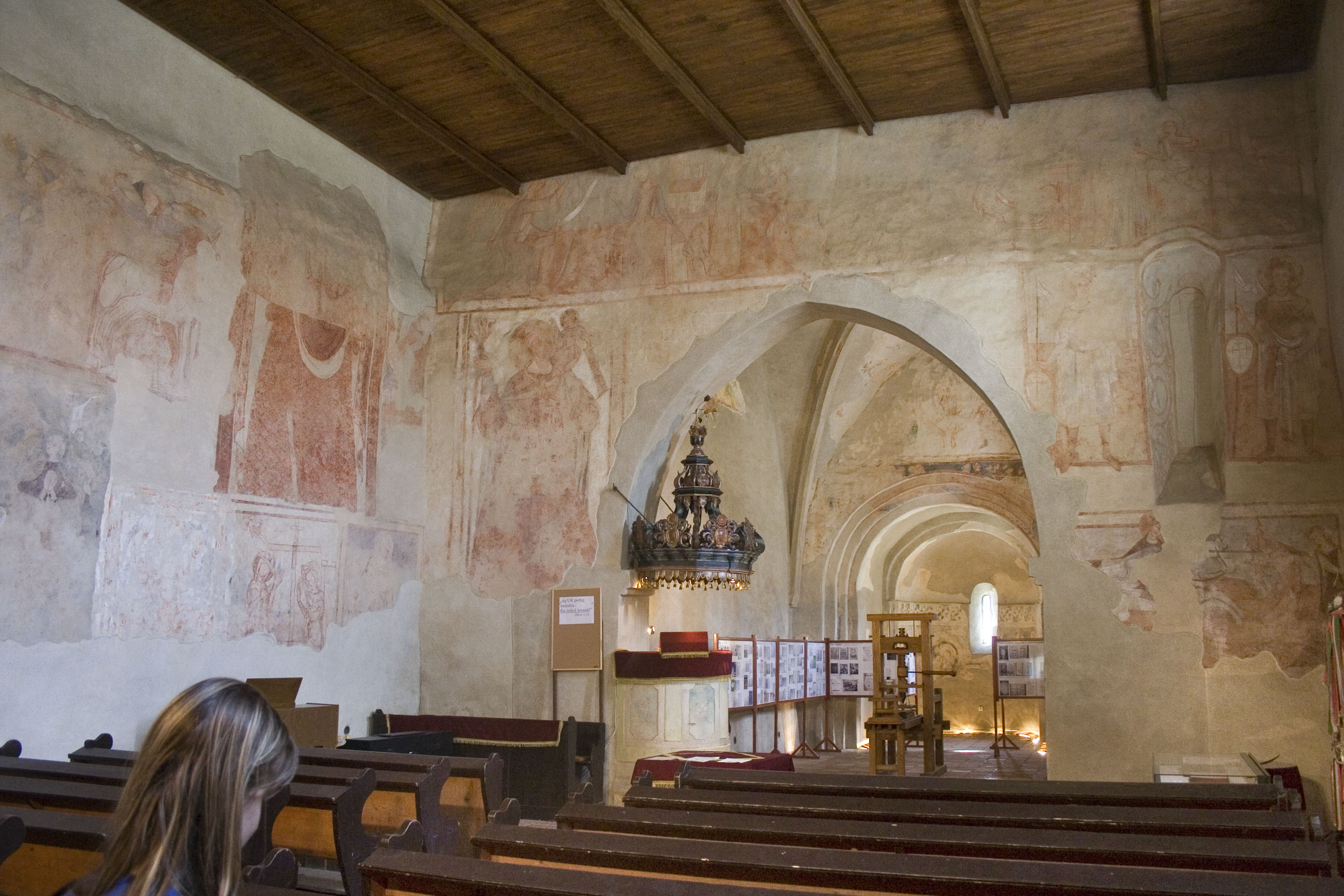 Hungary, County Zemplen, Vizsoly Reformed Romanesque church interior - XIII Centhury